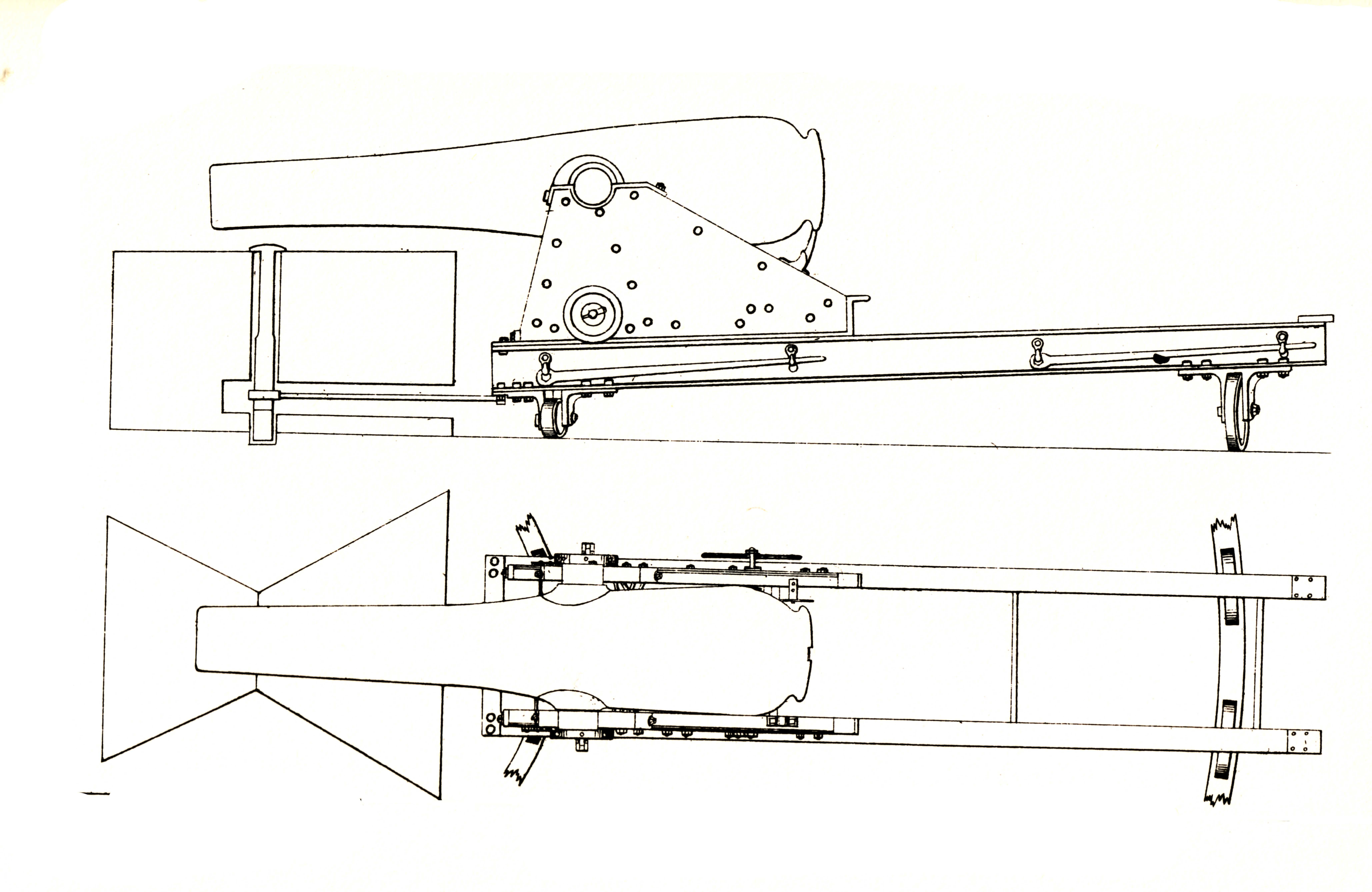 Drawing of casemate carriage for a Columbiad, US Civil War period